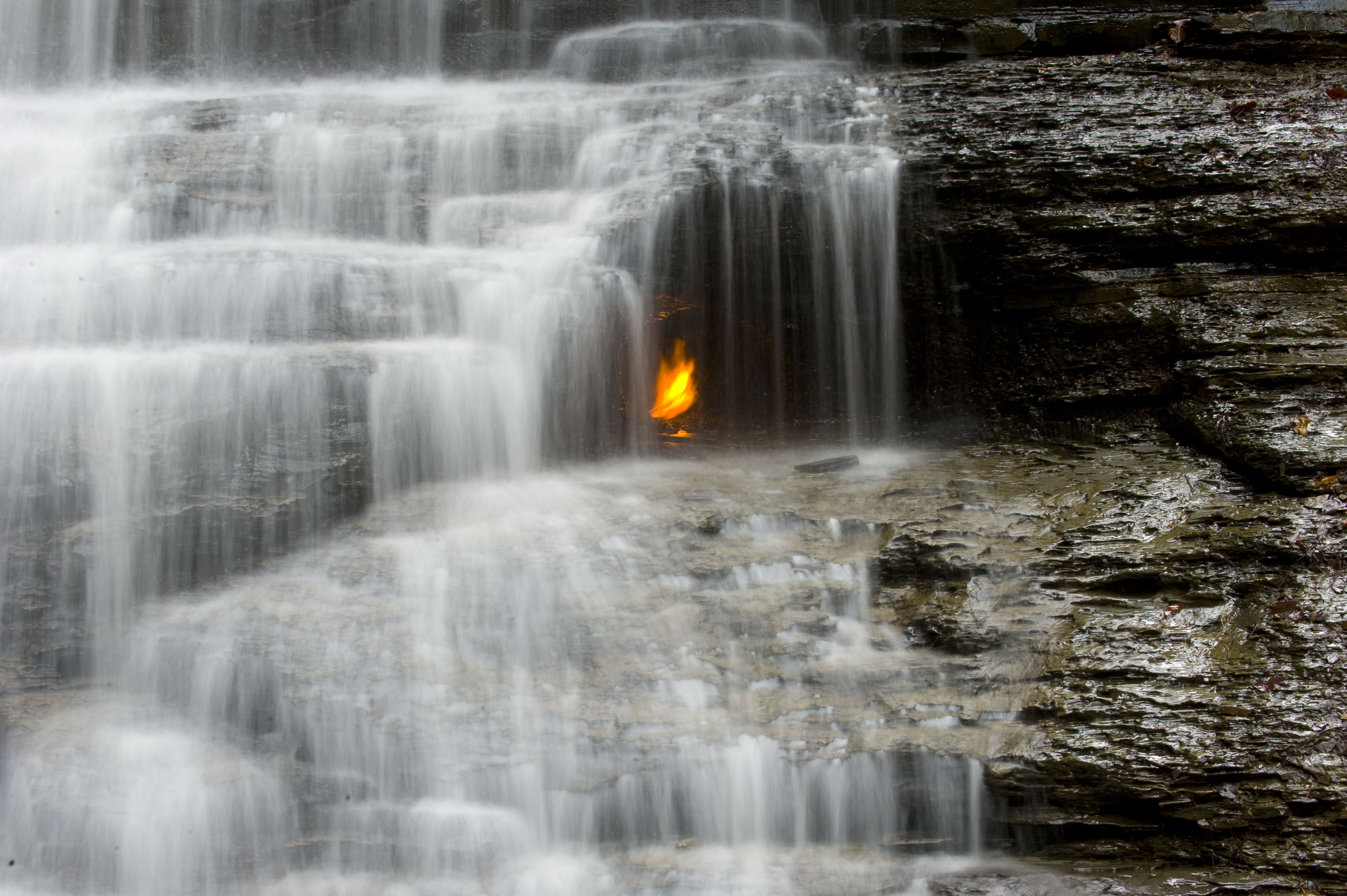 A close-up of the gas-lit flame below Eternal Flame Falls in Chestnut Ridge Park, Orchard Park, NY.